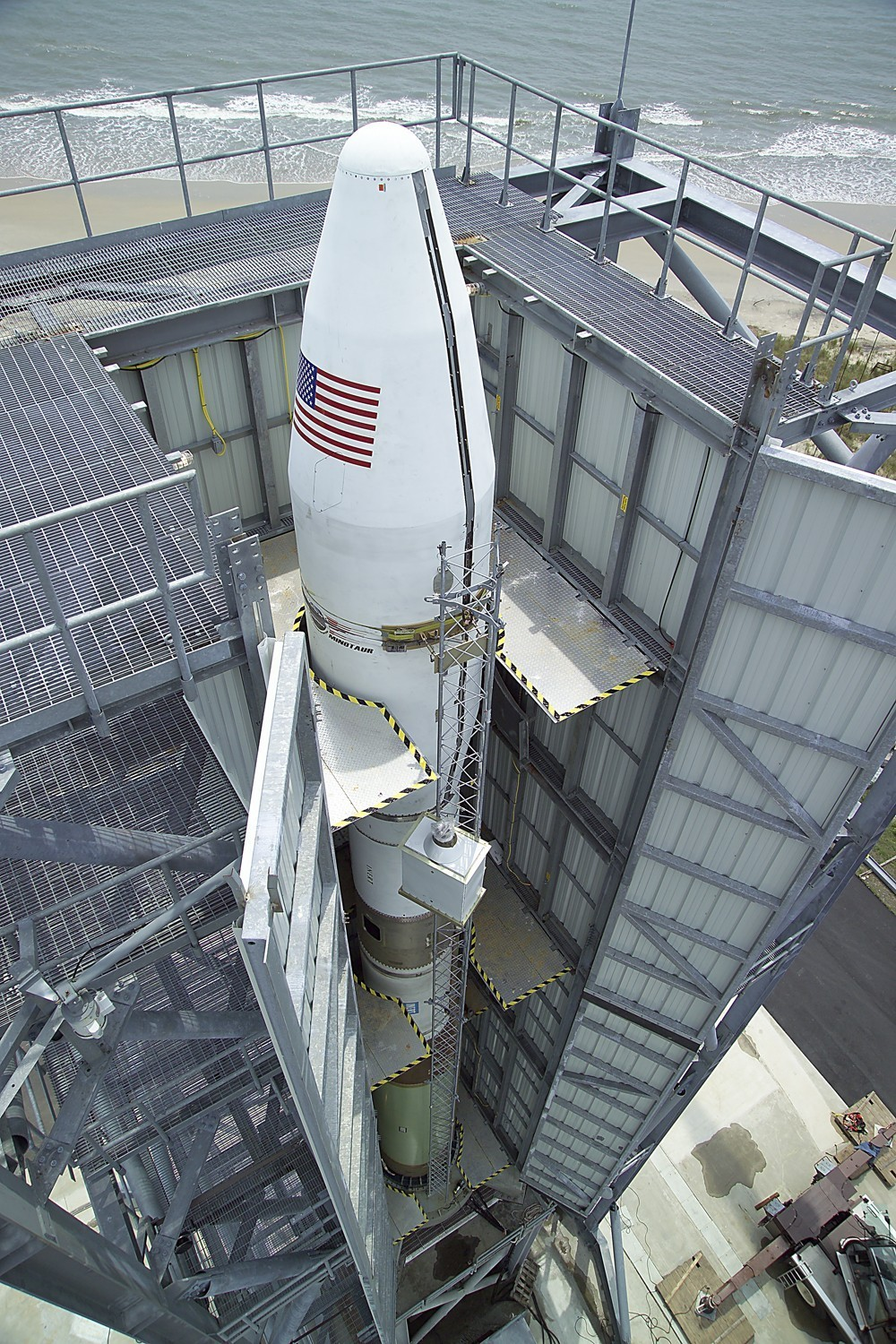 Minotaur on launch pad at Wallops Island